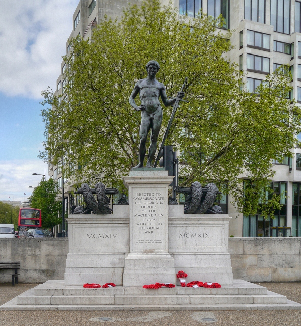 The Machine Gun Corps Memorial, at Hyde Park Corner, is a memorial to the dead of the Machine Gun Corps in the First World War in London. It is topped with a nude statue of a young David by Francis Derwent Wood. The inscription reads: ERECTED TO / COMMEMORATE / THE GLORIOUS / HEROES / OF THE / MACHINE GUN / CORPS / WHO FELL IN / THE GREAT / WAR / Saul has slain his thousands / but David his tens of thousands / MCMXIV - MCMXIX To either side of the statue is a real Vickers gun, encased in bronze and laurel-wreathed. The memorial was originally erected in 1925 next to Grosvenor Place; it was rededicated at its present location, in the central section of Hyde Park Corner, in 1963.